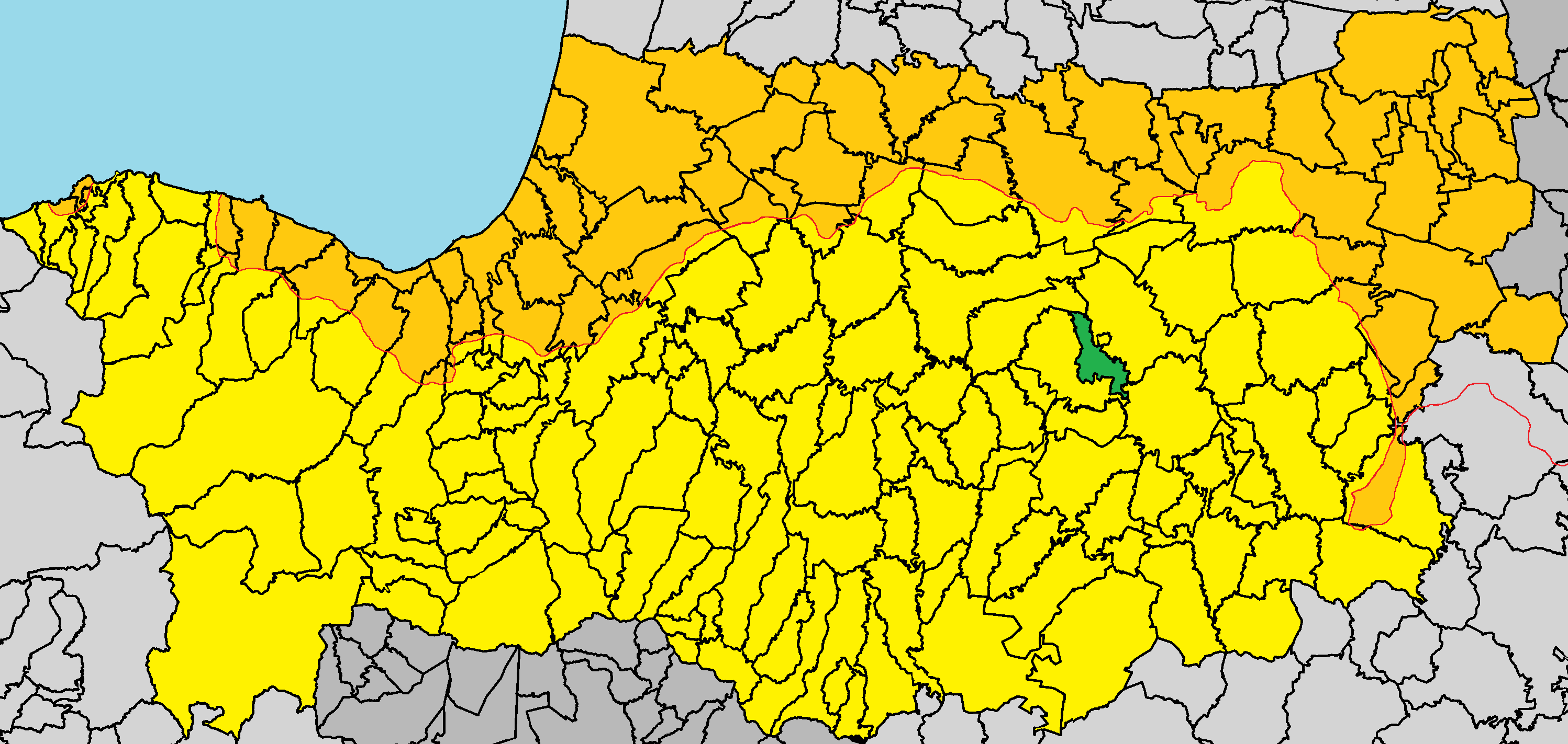 Kato Deftera in Nicosia District.